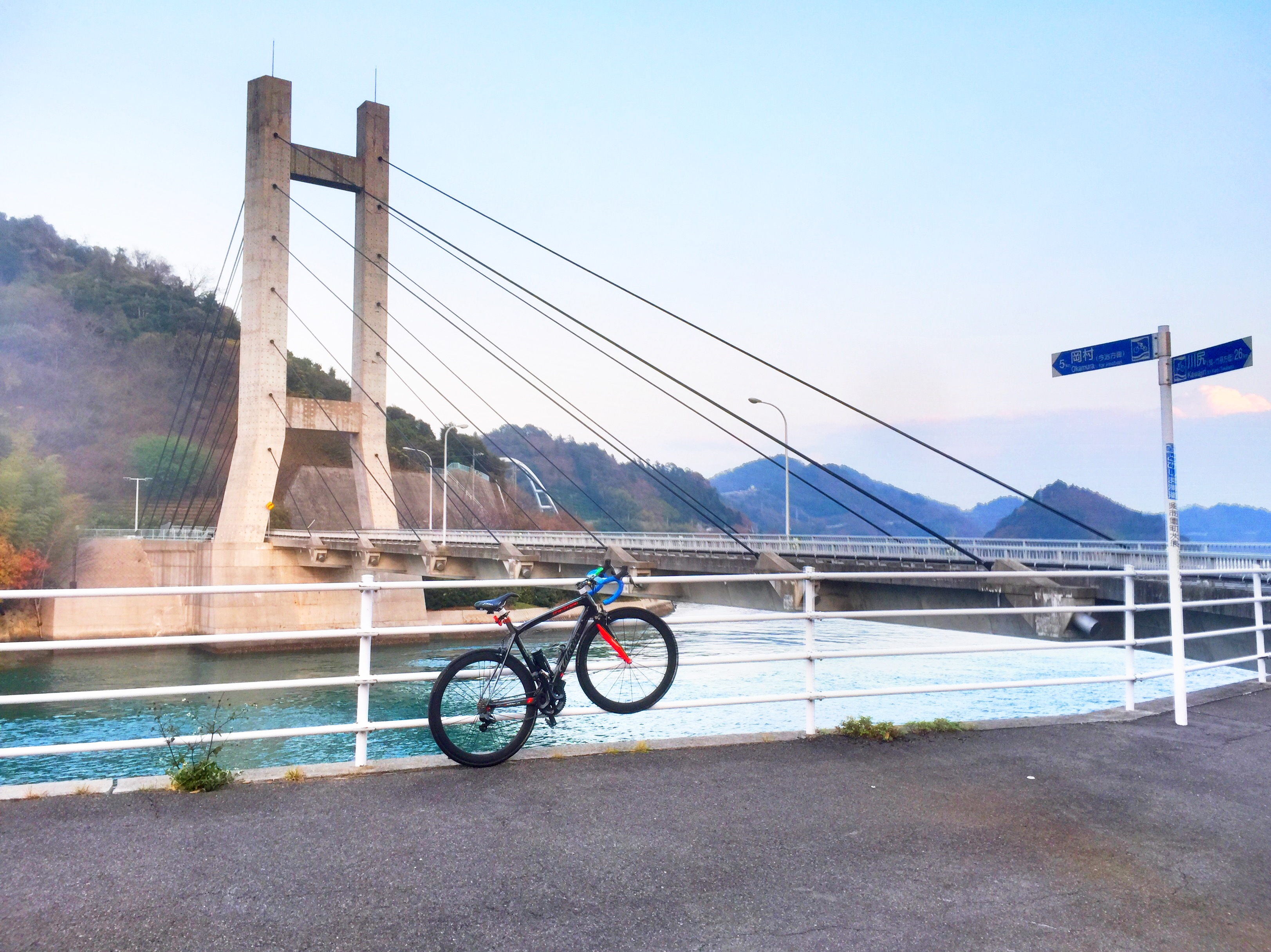 One-side-Cable-stayed bridge HEIRABASHI kure-city JAPAN